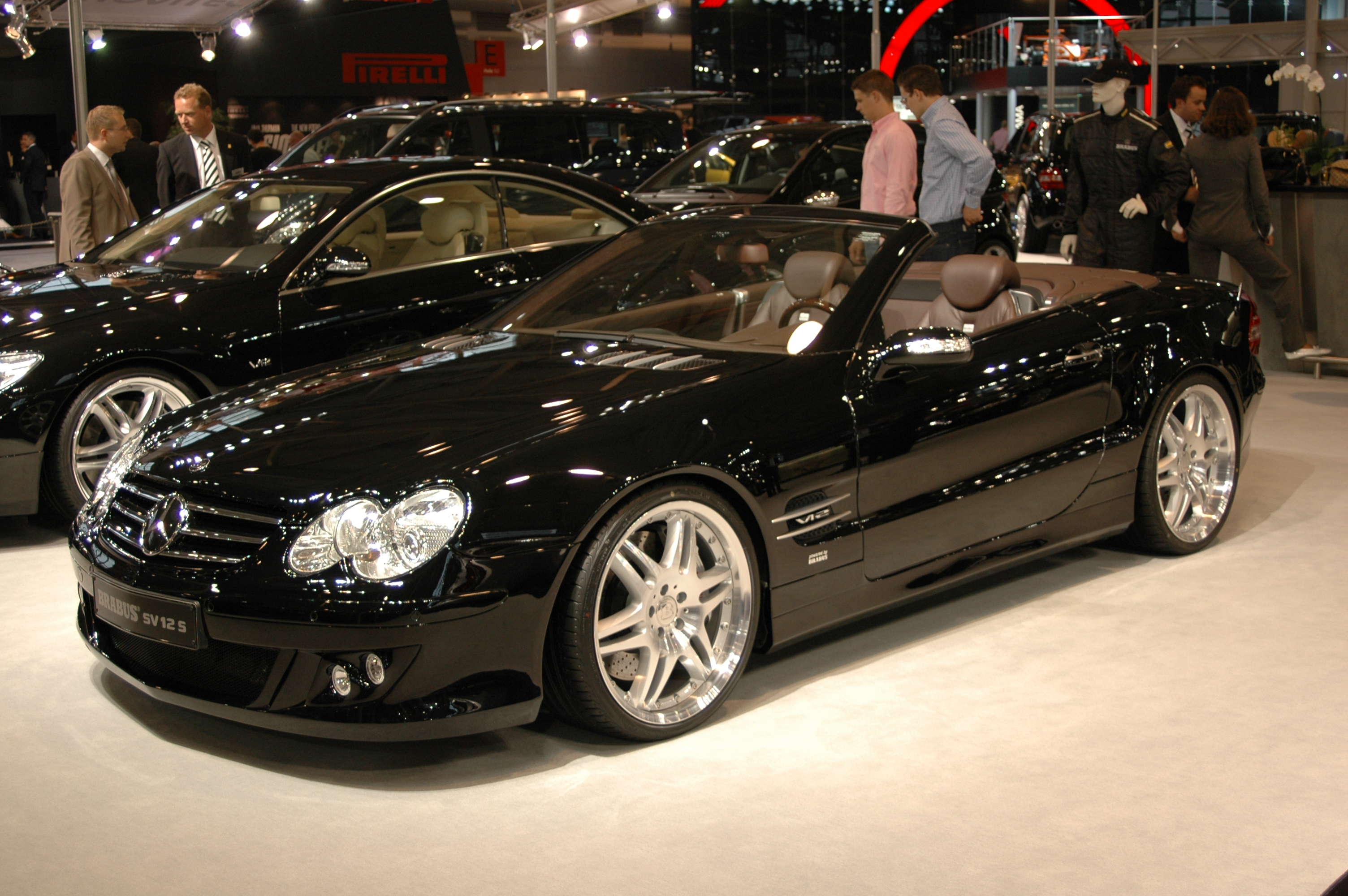 Photo of Mercedes-Benz SL-Class (2001-2008) Brabus in 2007.